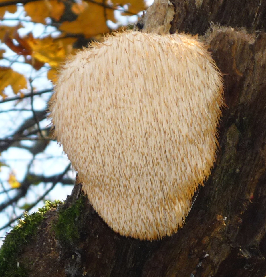 Hericium erinaceus